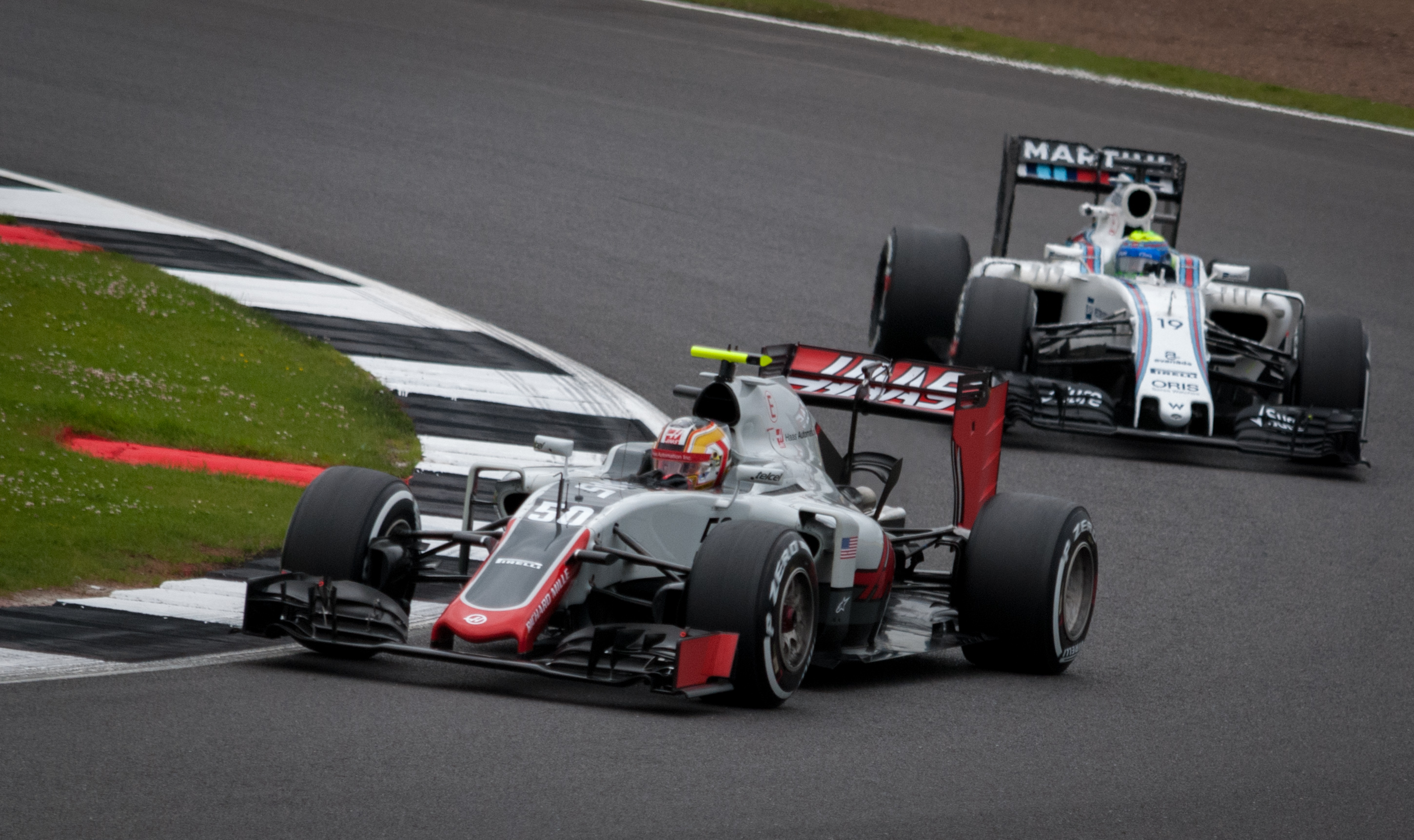 Charles Leclerc - Haas & Felipe Massa - Williams